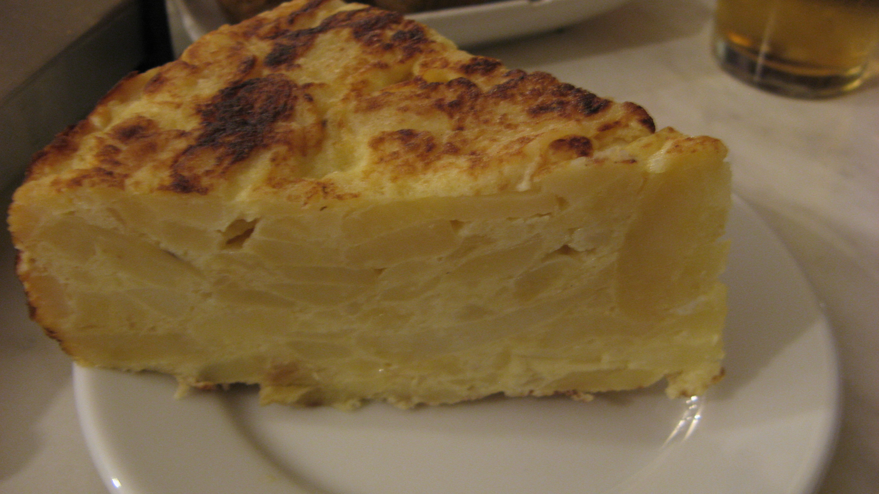 the place where croquetas equals art.